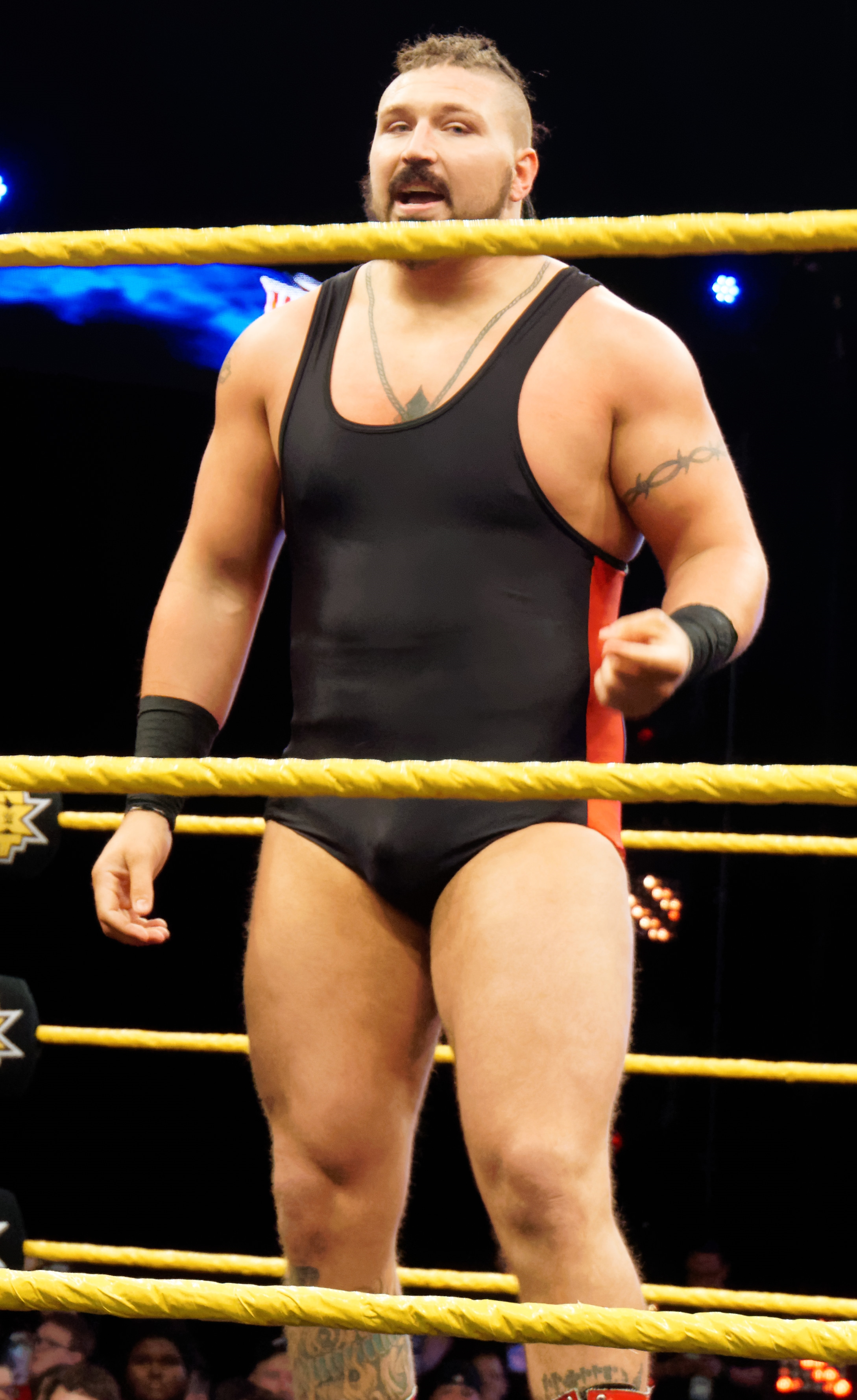 Sawyer Fulton at NXT event in April 2016.